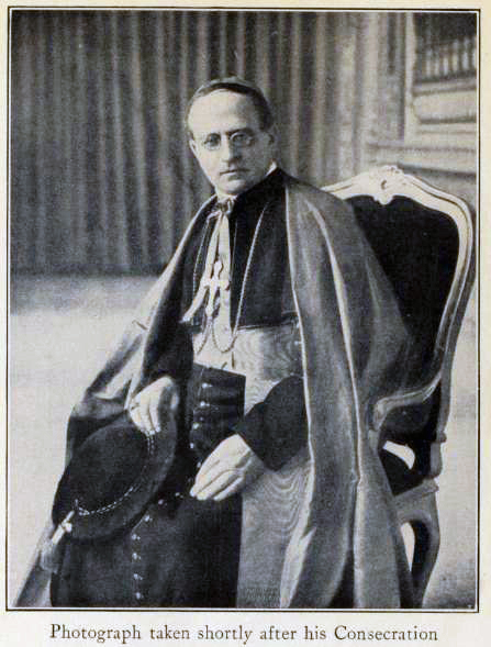 Achille Ratti, photograph taken shortly after his Consecration (1919-10-28).